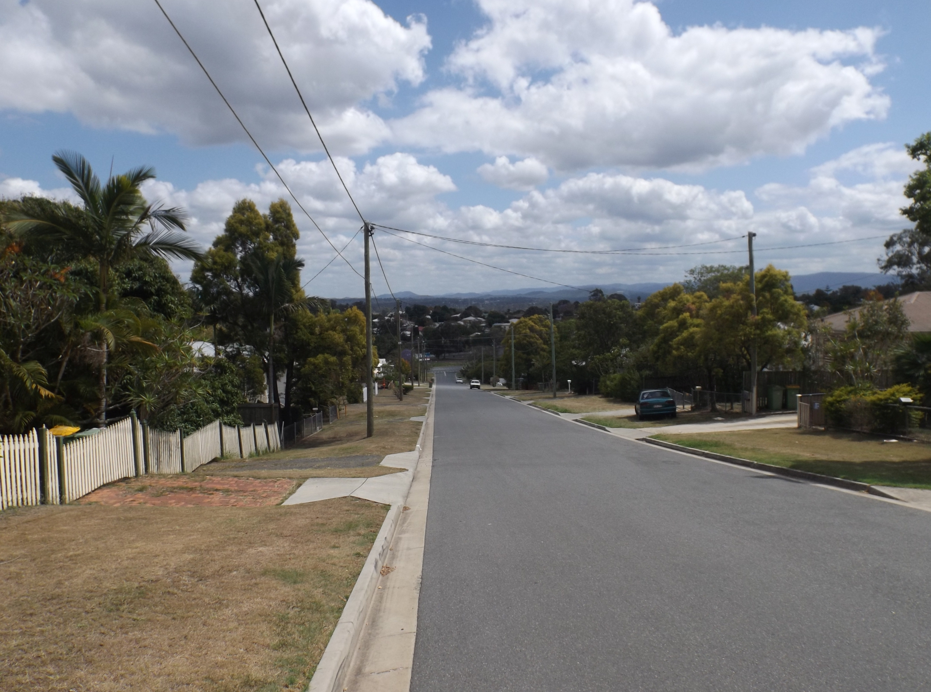 Photo of Harold Street and houses at Bundamba, Ipswich, Queensland, Australia.